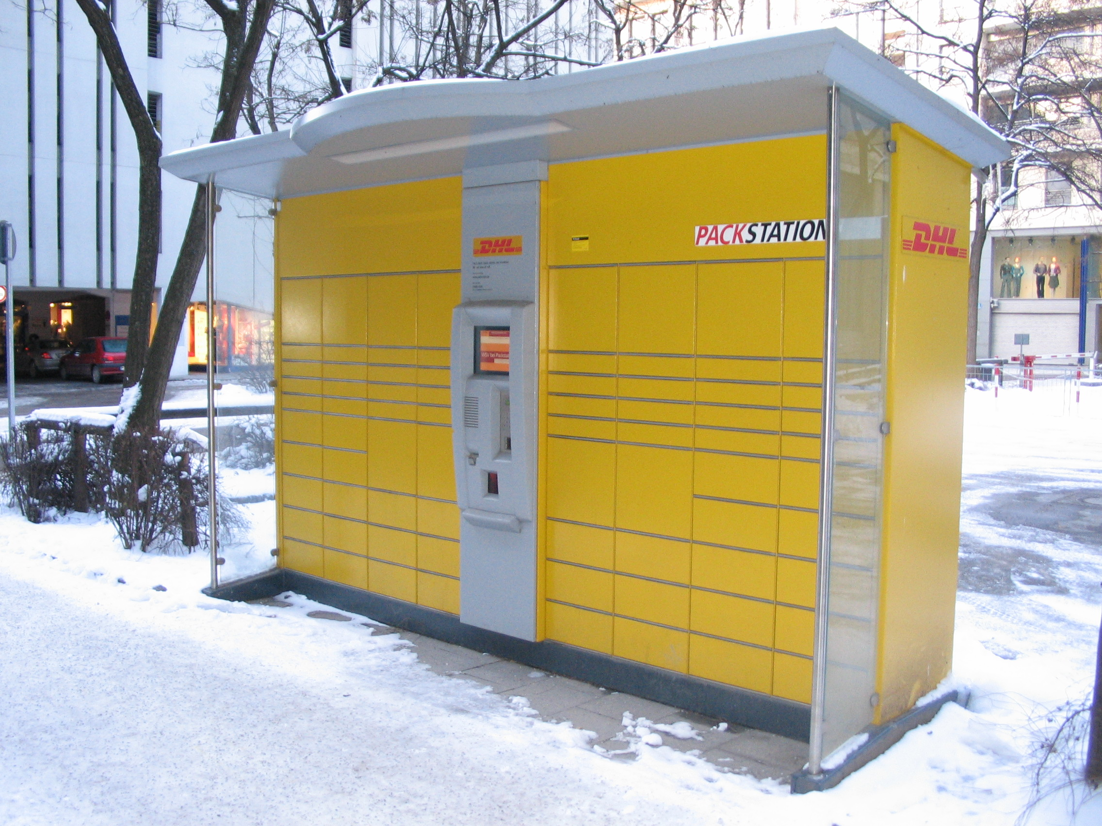 A Packstation in Munich in the winter